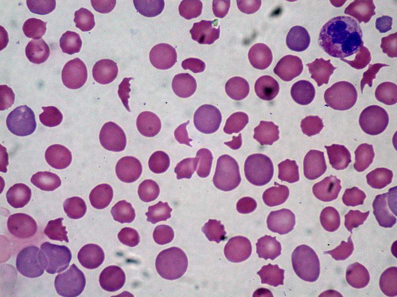 DIC With Microangiopathic Hemolytic Anemia 34 y/o female, Hb 8.6 g/dL, MCV 104.5 fL, MCHC 32.8 g/dL, platelets 11,000/uL, WBC 59,000/uL. Patient had a history of disseminated non-small cell carcinoma of the lung. She presented to the ER in extremis and expired within a few hours of admission. Morphology: Thrombocytopenia, 4+ schizocytes, 3+ spherocytes, 4+ polychromatophilic rbc. Diagnosis: Disseminated carcinomatosis with DIC